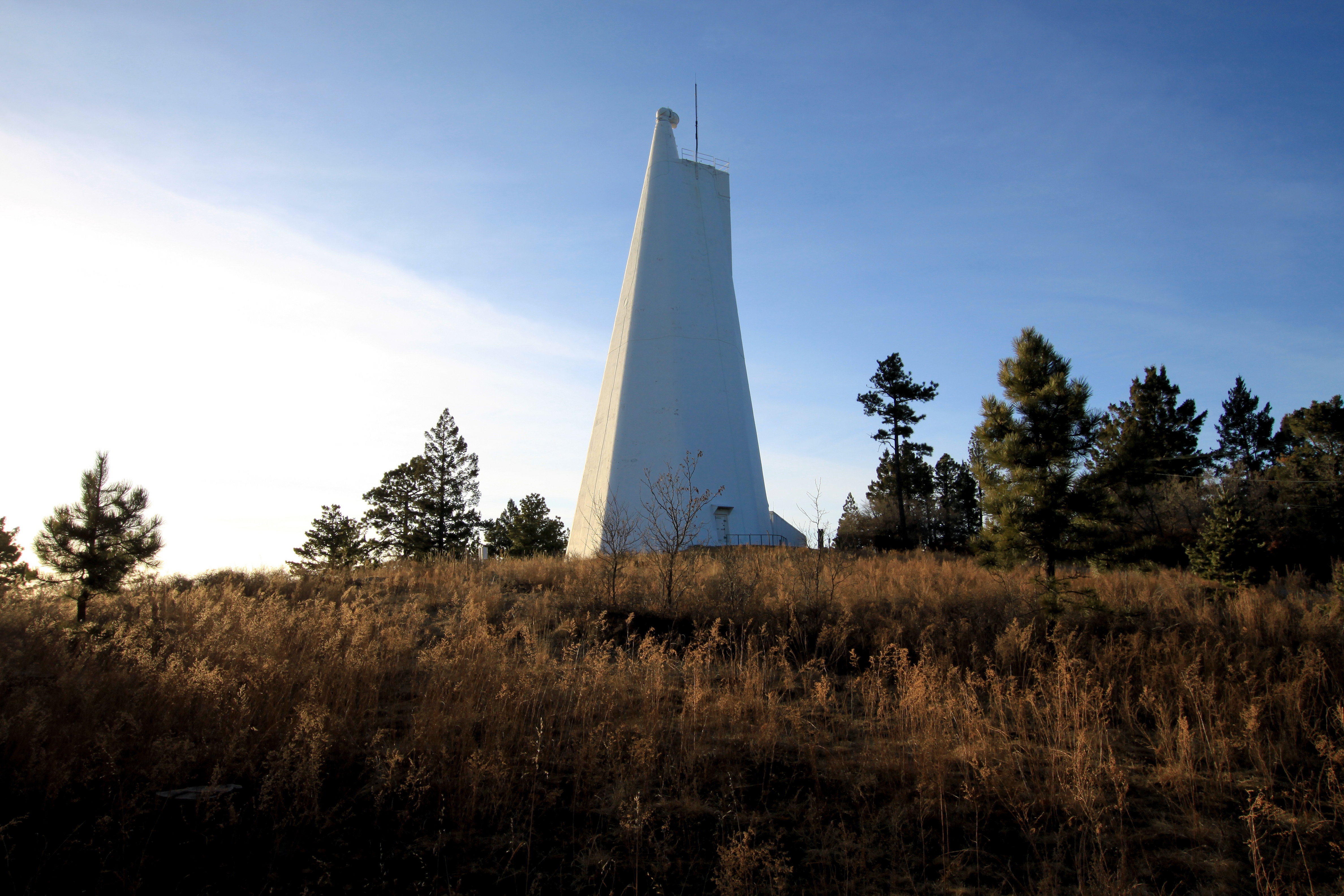 Sunset over the Dunn Solar Telescope in Sunspot, NM. Part of the National Solar Obsevatory at Sacramento Peak.